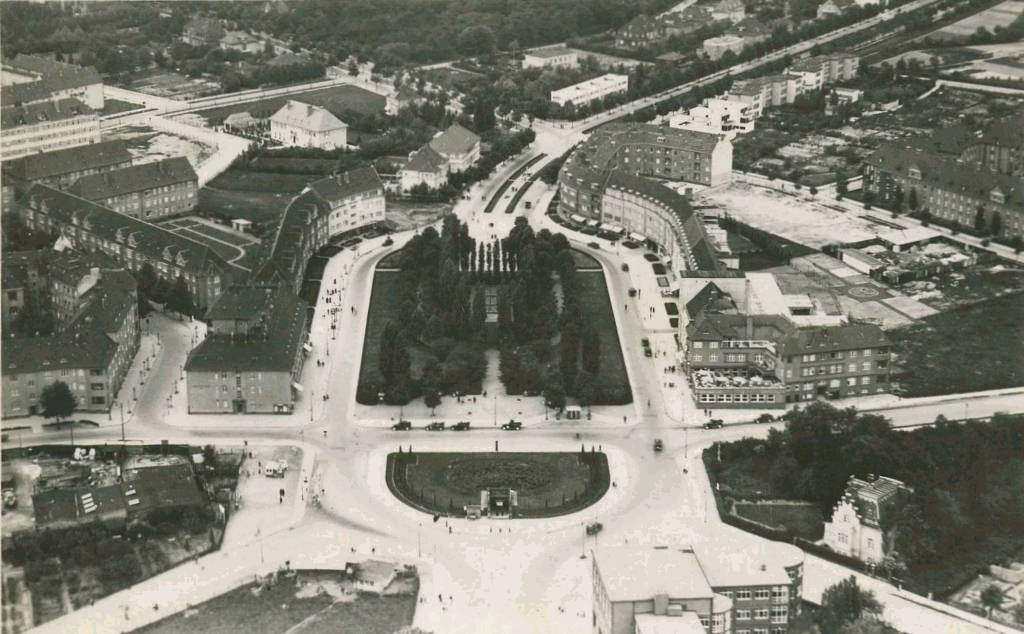 Aerial photo of the Breitenbachplatz in Dahlem, Steglitz-Zehlendorf, Berlin; view towards south.